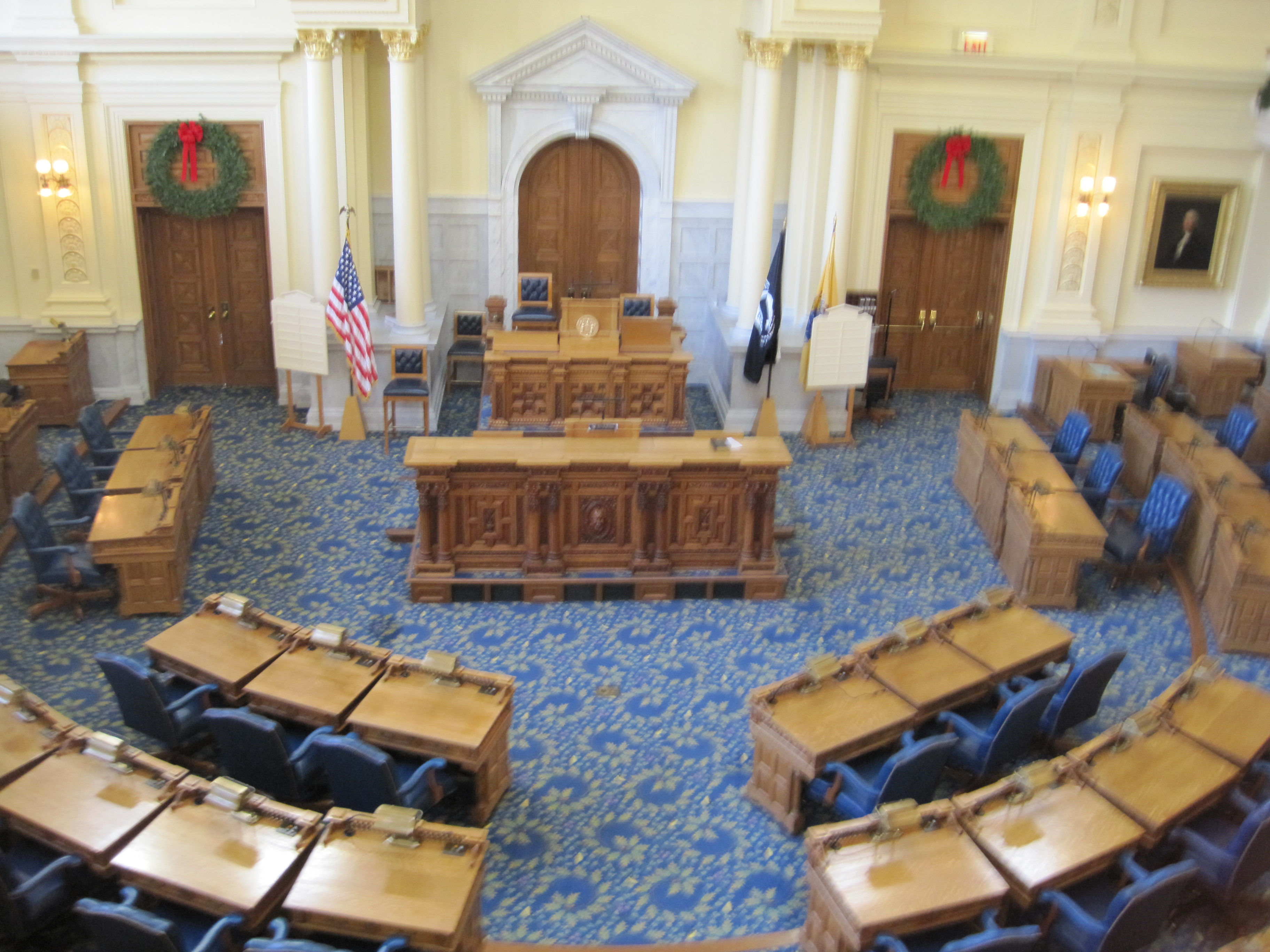 The floor of the New Jersey General Assembly in the New Jersey State Assembly, as seen from the public viewing gallery.